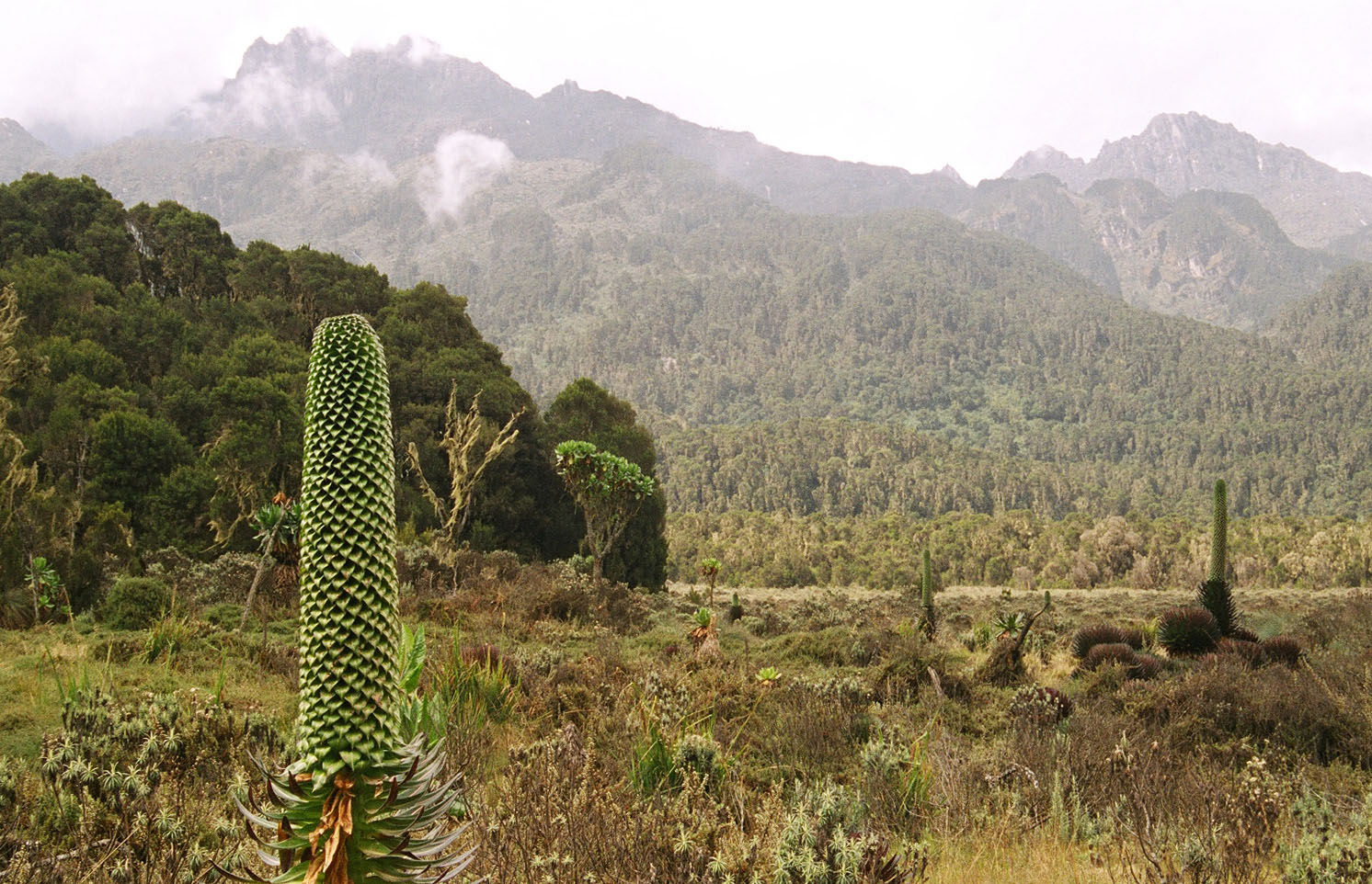 Lower Bigo Bog in the Rwenzori mountains with giant lobelia (Lobelia deckenii) in foreground and a giant senecio in the mid-background. Photograph taken 25 March 2004 by Robert Weinkove using Minolta Dynax 4 camera.